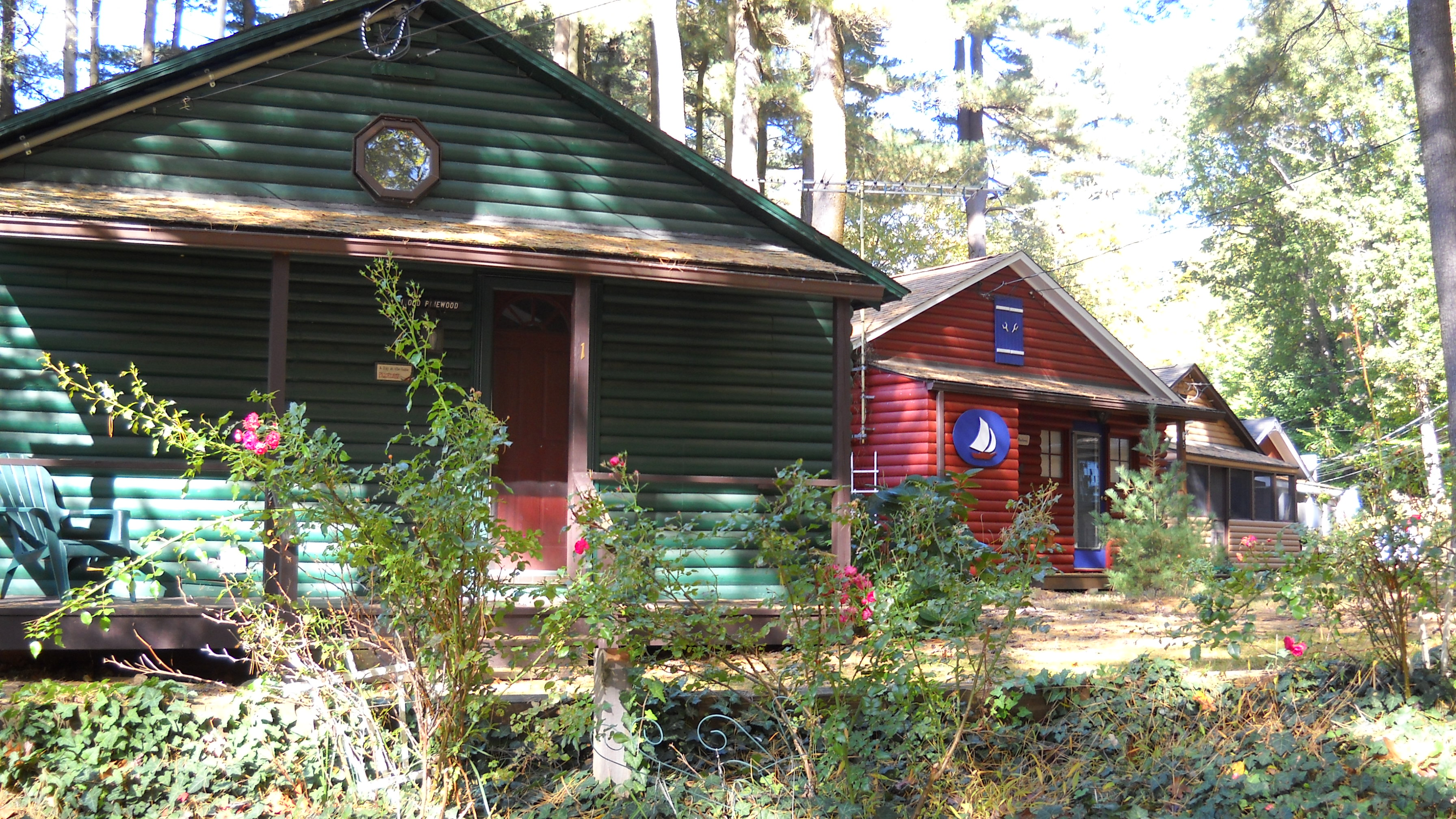 Pinebrook Cabins ca. 1931